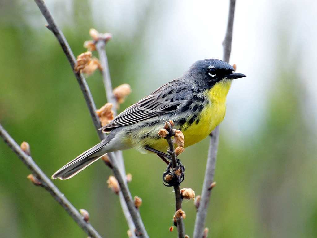 A male Kirtland's Warbler in a jack pine forest in Michigan, USA.